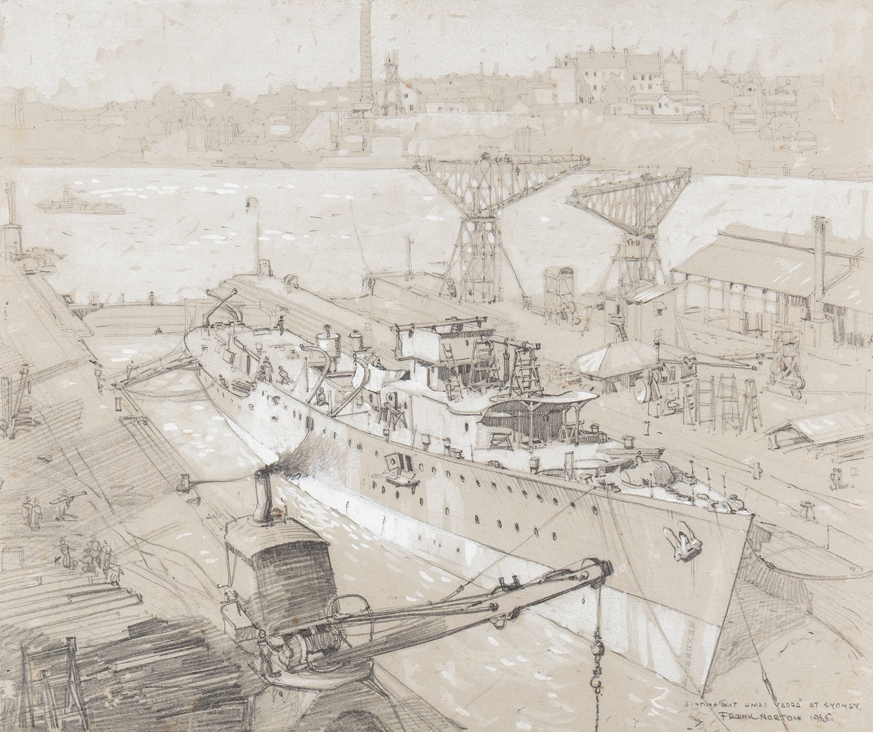 Offered for sale by Abbott and Holder in February 2020 when it was described as "NORTON Frank (1916-1983) RAN Official War Artist. ‘Fitting Out H.M.A.S. Yarra at Sydney’. Pencil and gouache on grey paper. Signed, inscribed and dated, 1935. ‘Yarra’ was a Grimsby Class Sloop, one of four laid down at Cockatoo Island Dockyard, Sydney, Australia in 1934 and launched in 1935. She was sunk by the Japanese in March 1942. 9x10.5 inches."